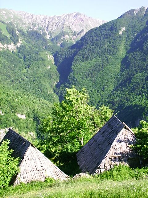 Rakitnica River and its valley, Bosnia and Herzegovina